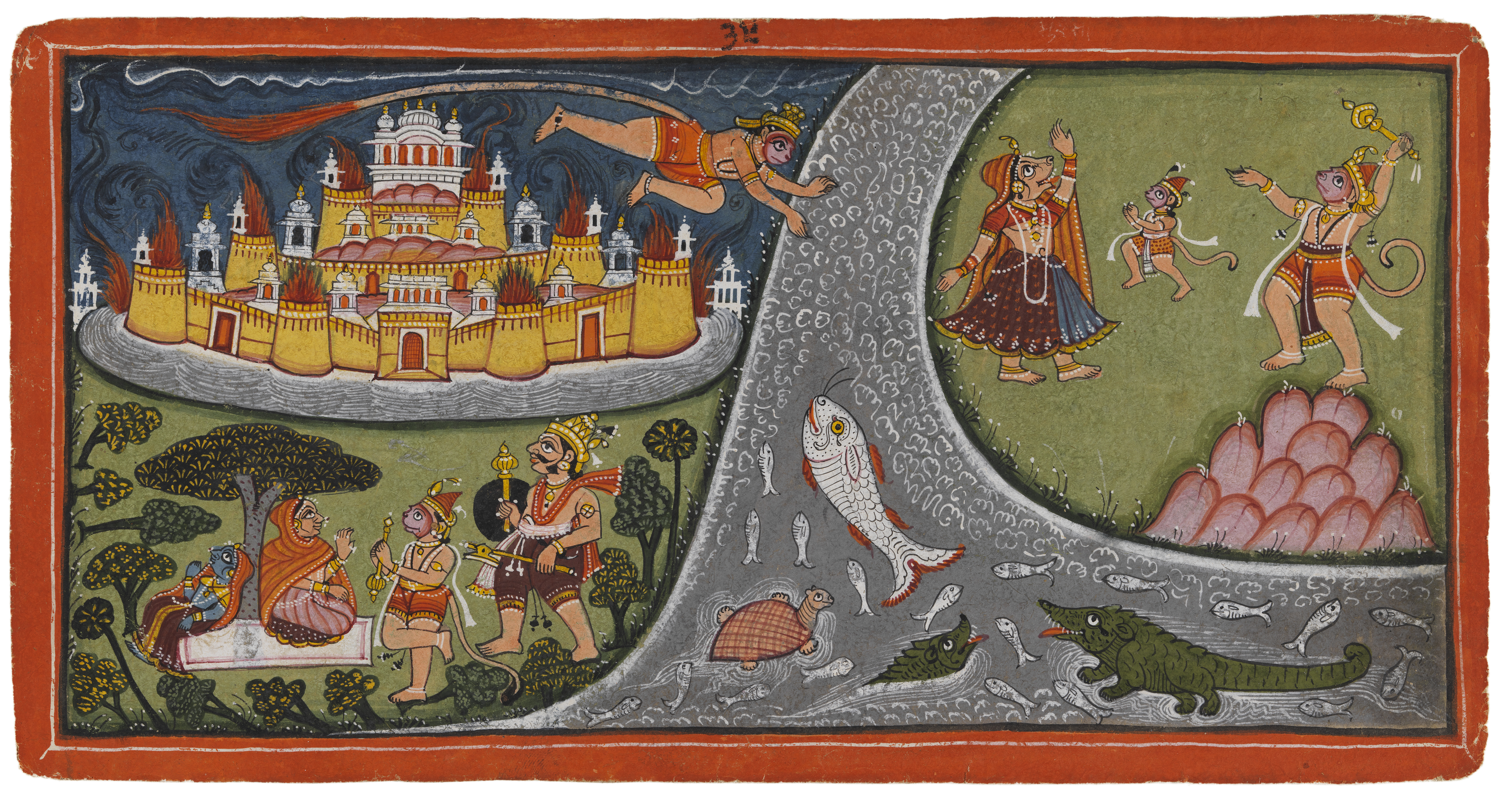 Hanuman visits Lanka, meets Sita and sets Ravana's Citadel on fire.